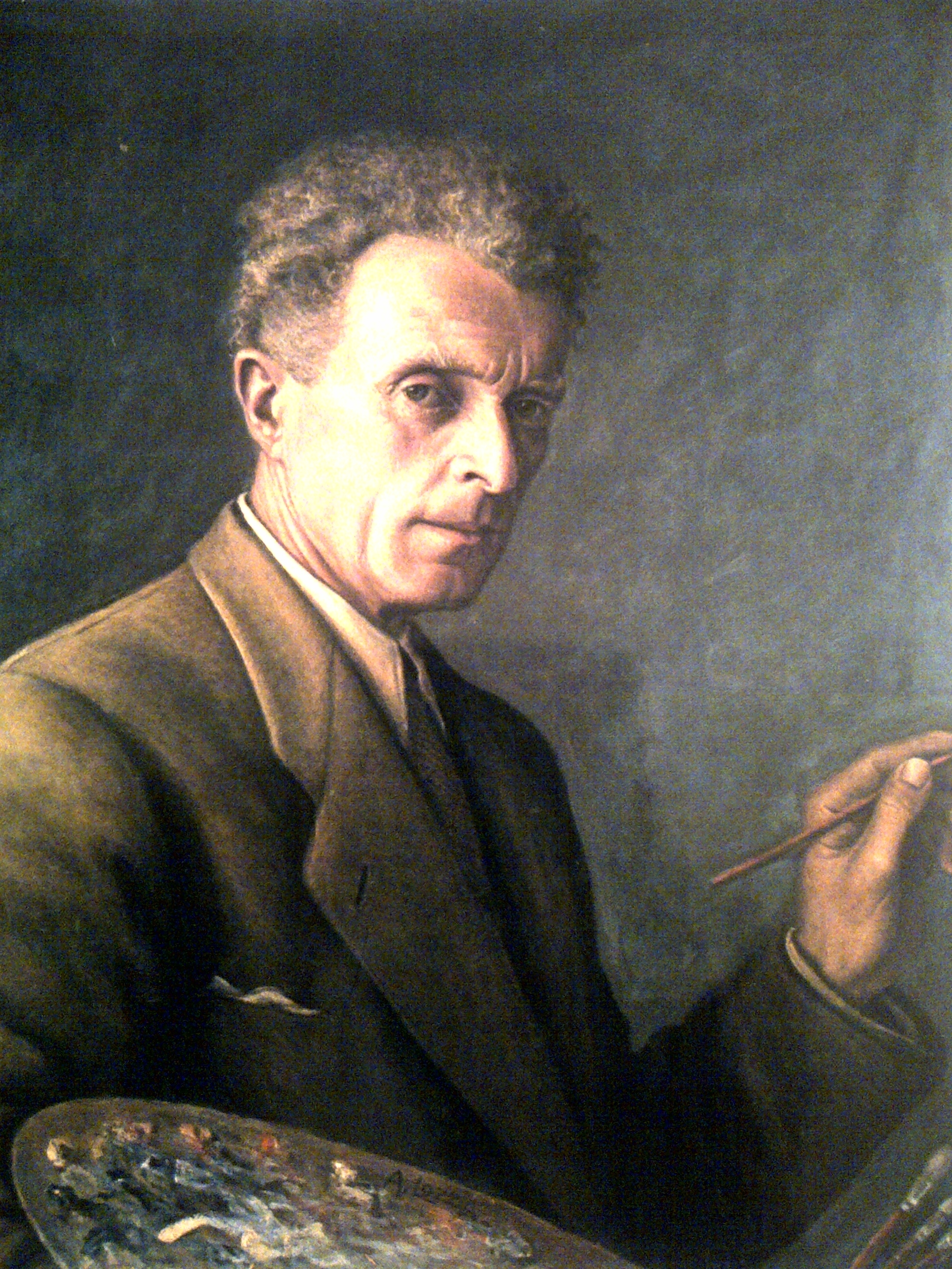 Self-portrait of the author